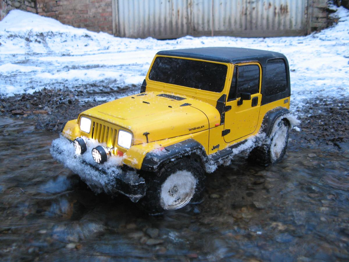 RC car Tamiya Jeep Wrangler YJ, scale offroad category, 1:10